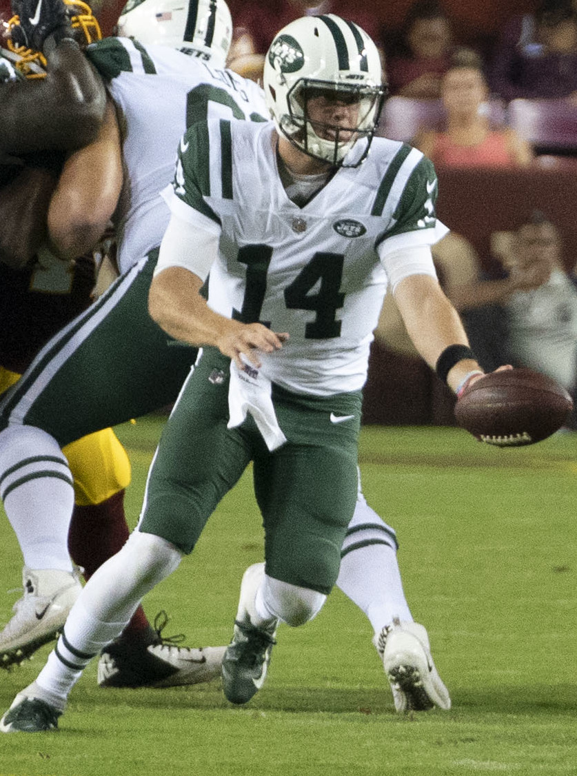 Jets at Redskins 8/16/18